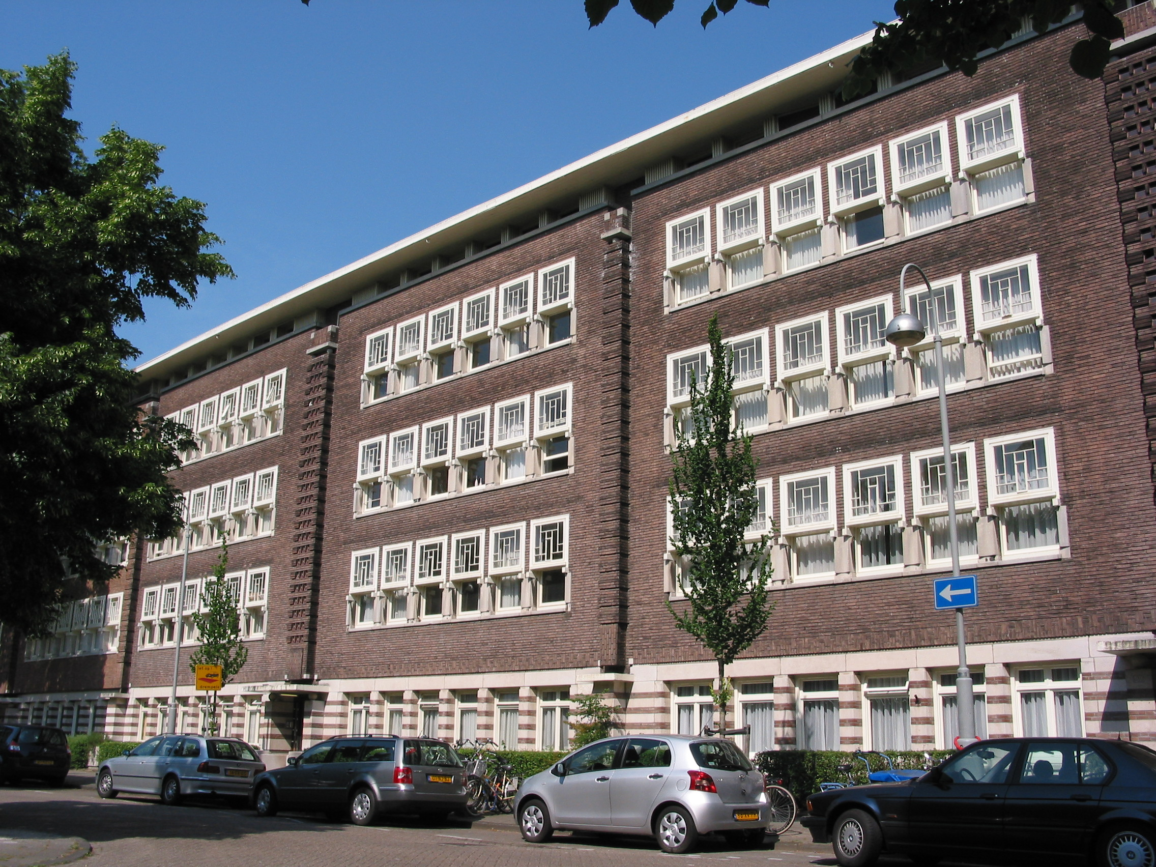 Jordanus Roodenburgh (architect). Minervalaan 39-59, detail. c 1929 (?).